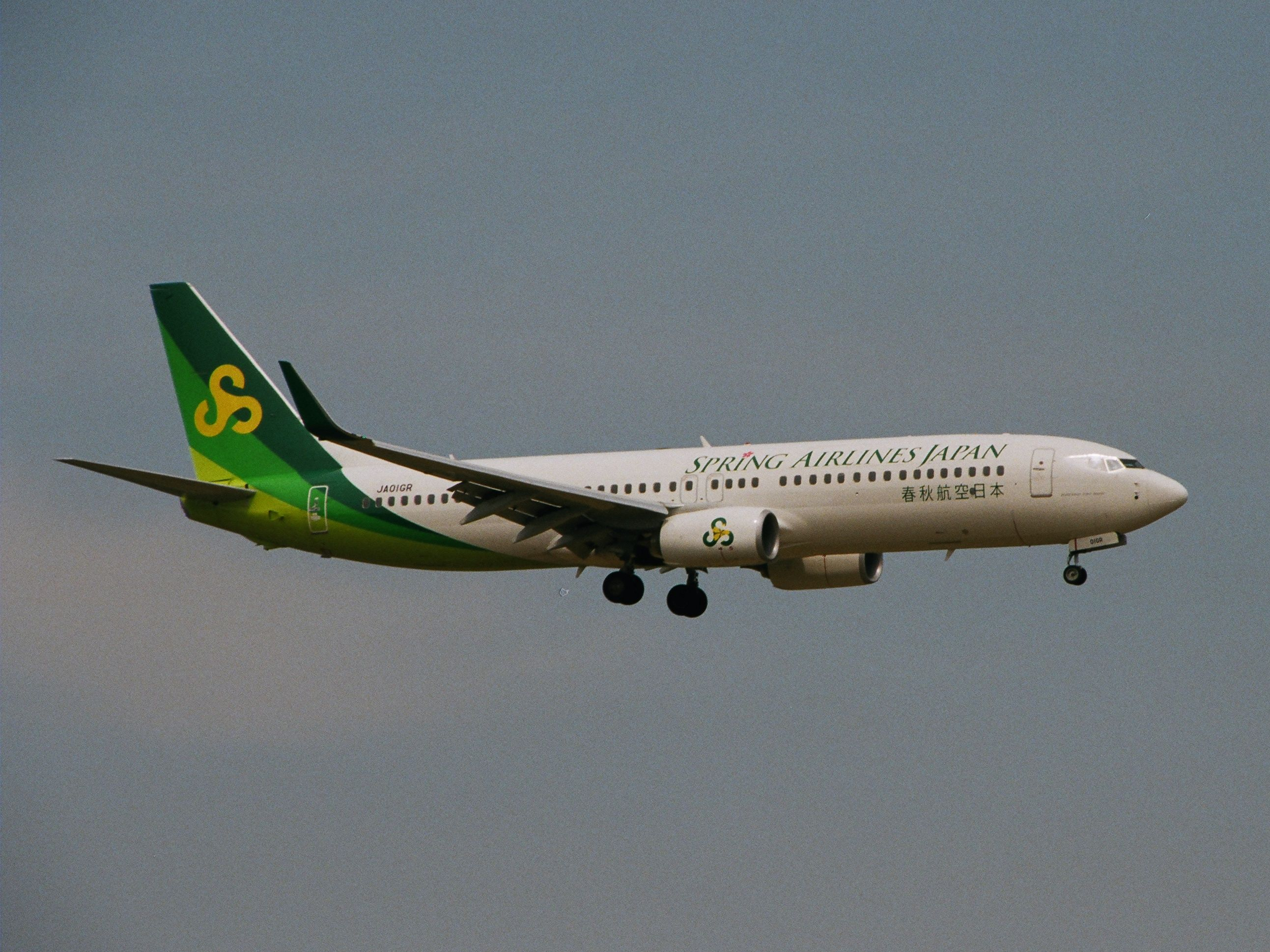 Boeing 737-81D JA01GR (cn 39429 / 4413) at Narita International Airport (NRT / RJAA)